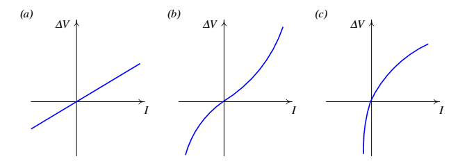 tensão ex.